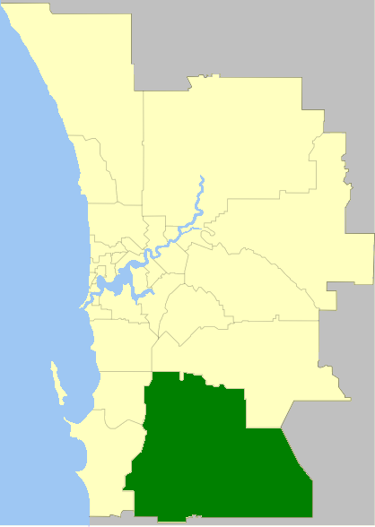 Location of the Local Government Area Shire of Serpentine-Jarrahdale in Perth, Western Australia